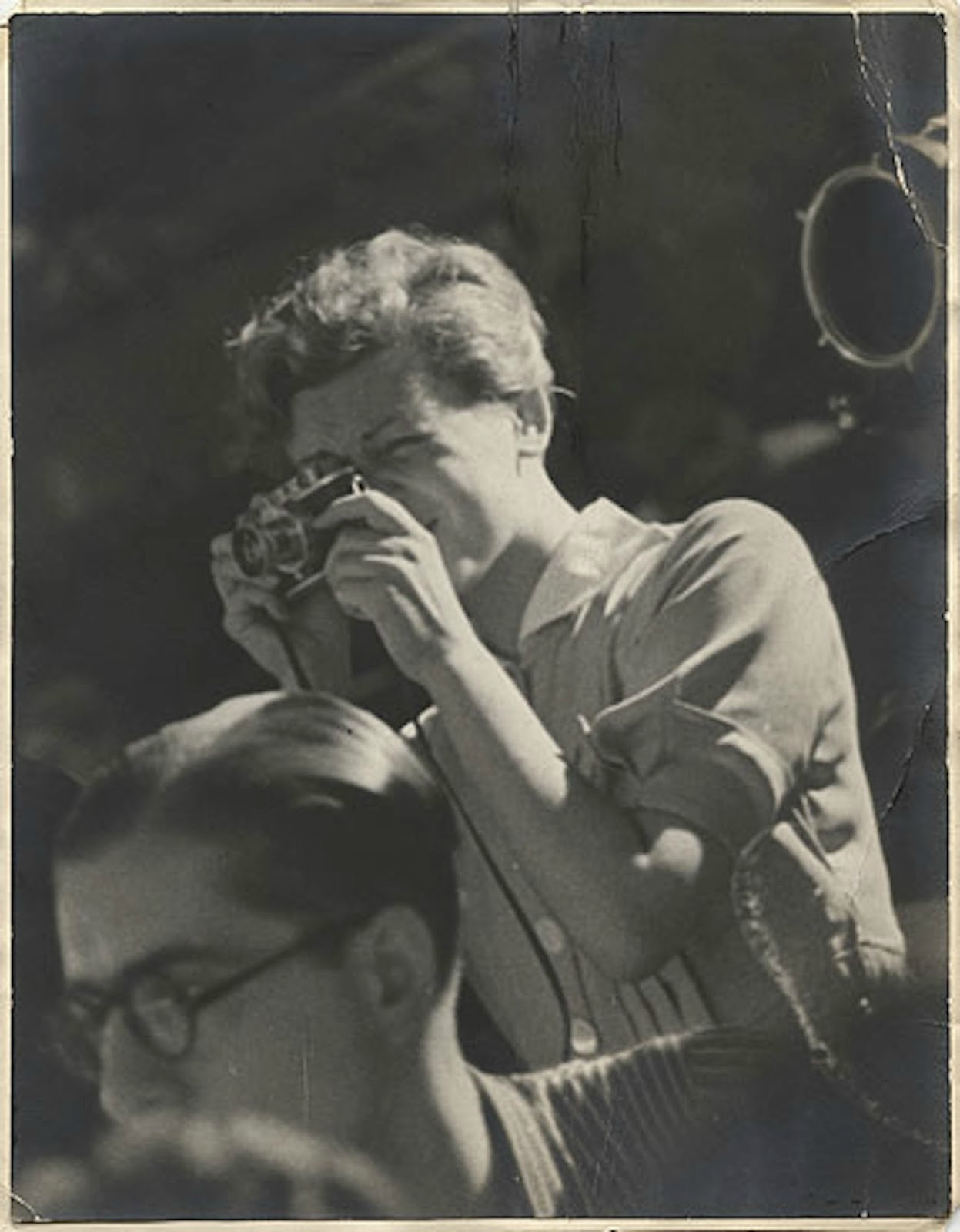 Gerda Taro, Guadalajara front, July 1937